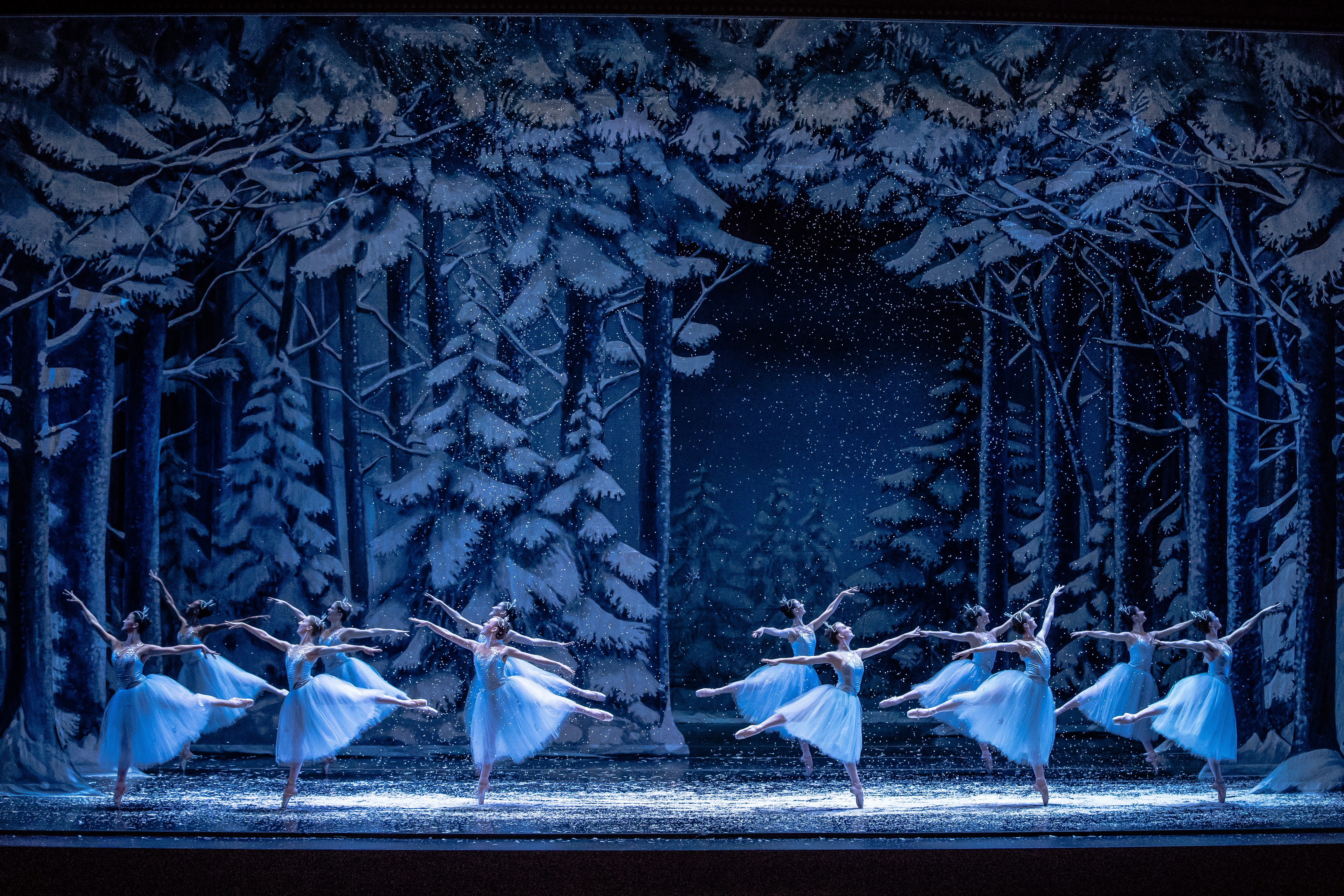 KCB Dancers. Photography by Brett Pruitt & East Market Studios.